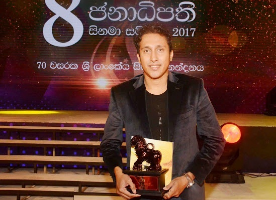 Dinesh Subasinghe has won the best film song award at the presidential award ceremony in 2017 for Ho Gana Pokuna Movie